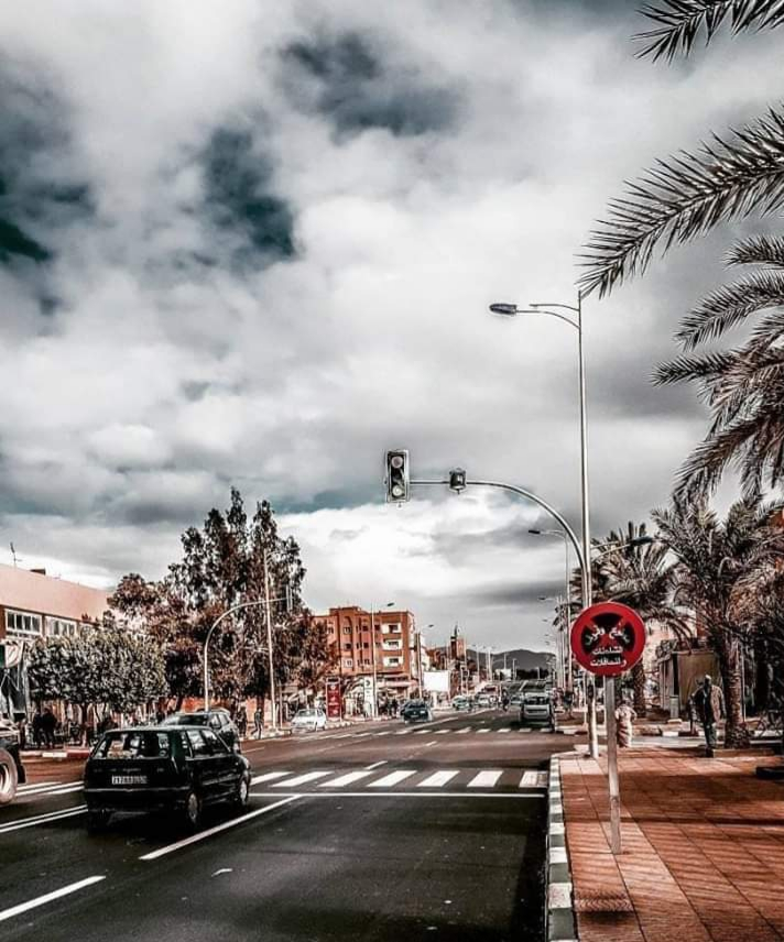 Er rachidia